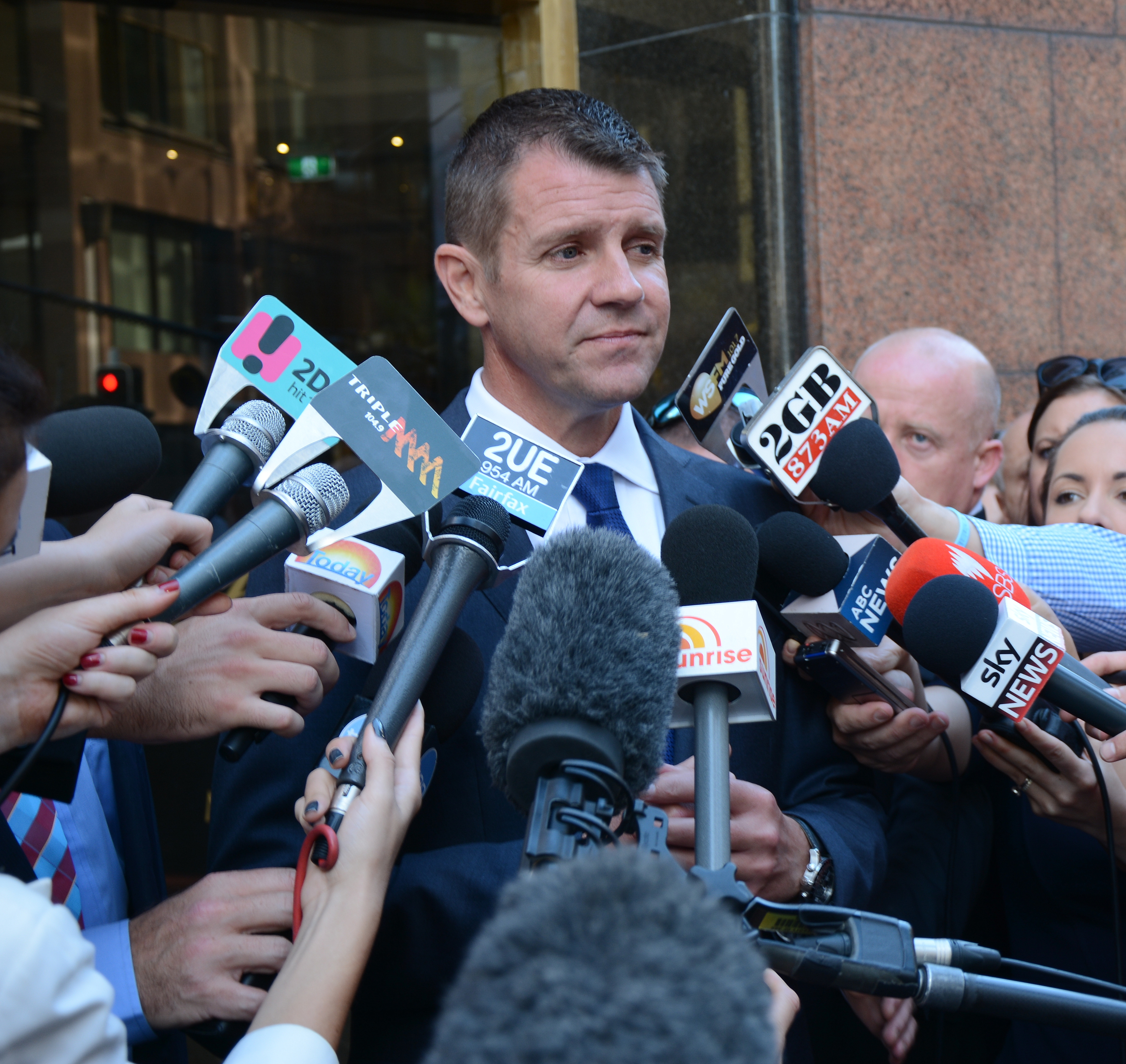 Premier Mike Baird at official reopening of Lindt Café, Martin Place, Sydney, 20 March 2015